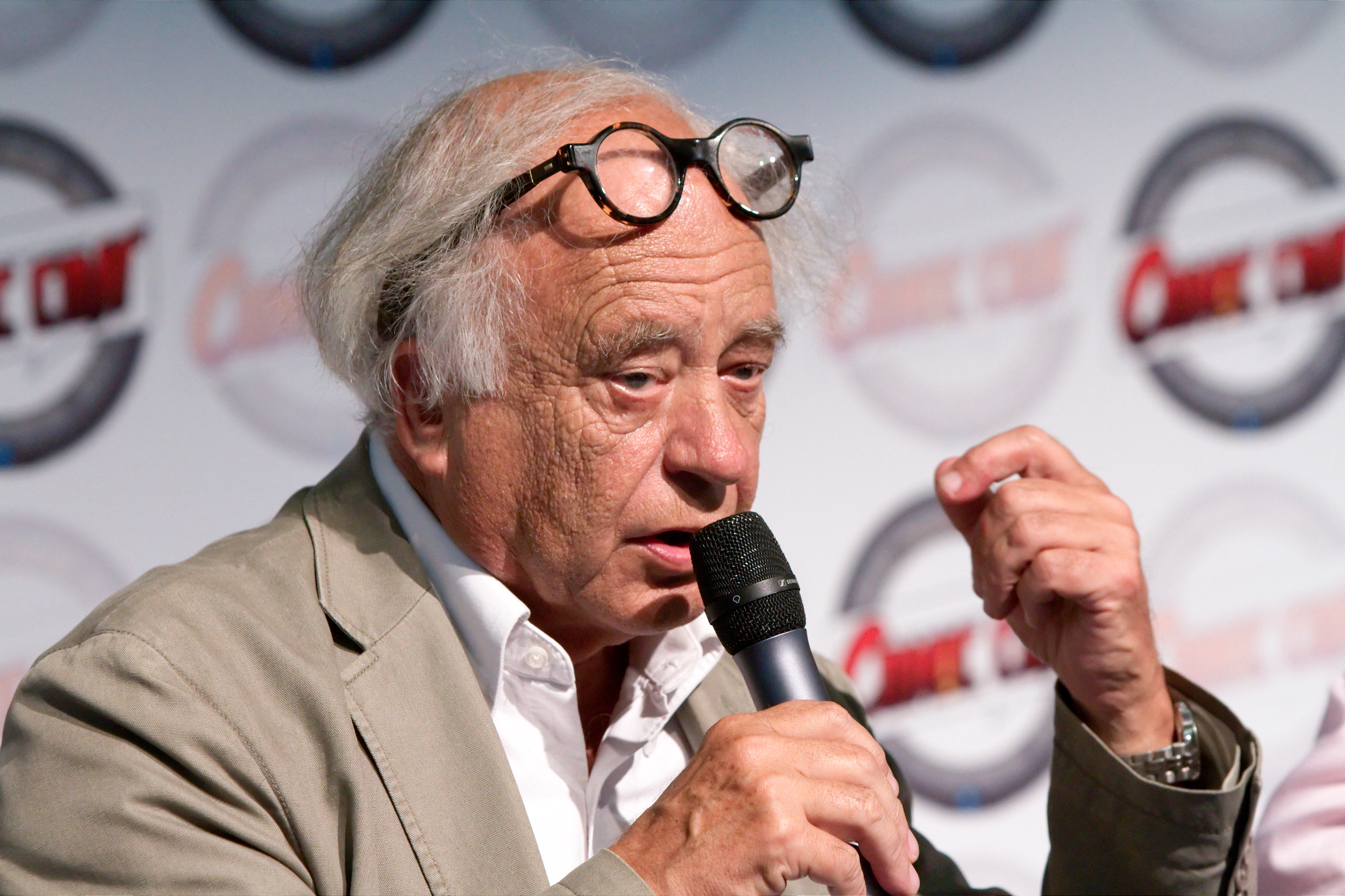 Jean-Claude Mézières and Pierre Christin's lecture at Japan Expo 2010 (Paris, France).